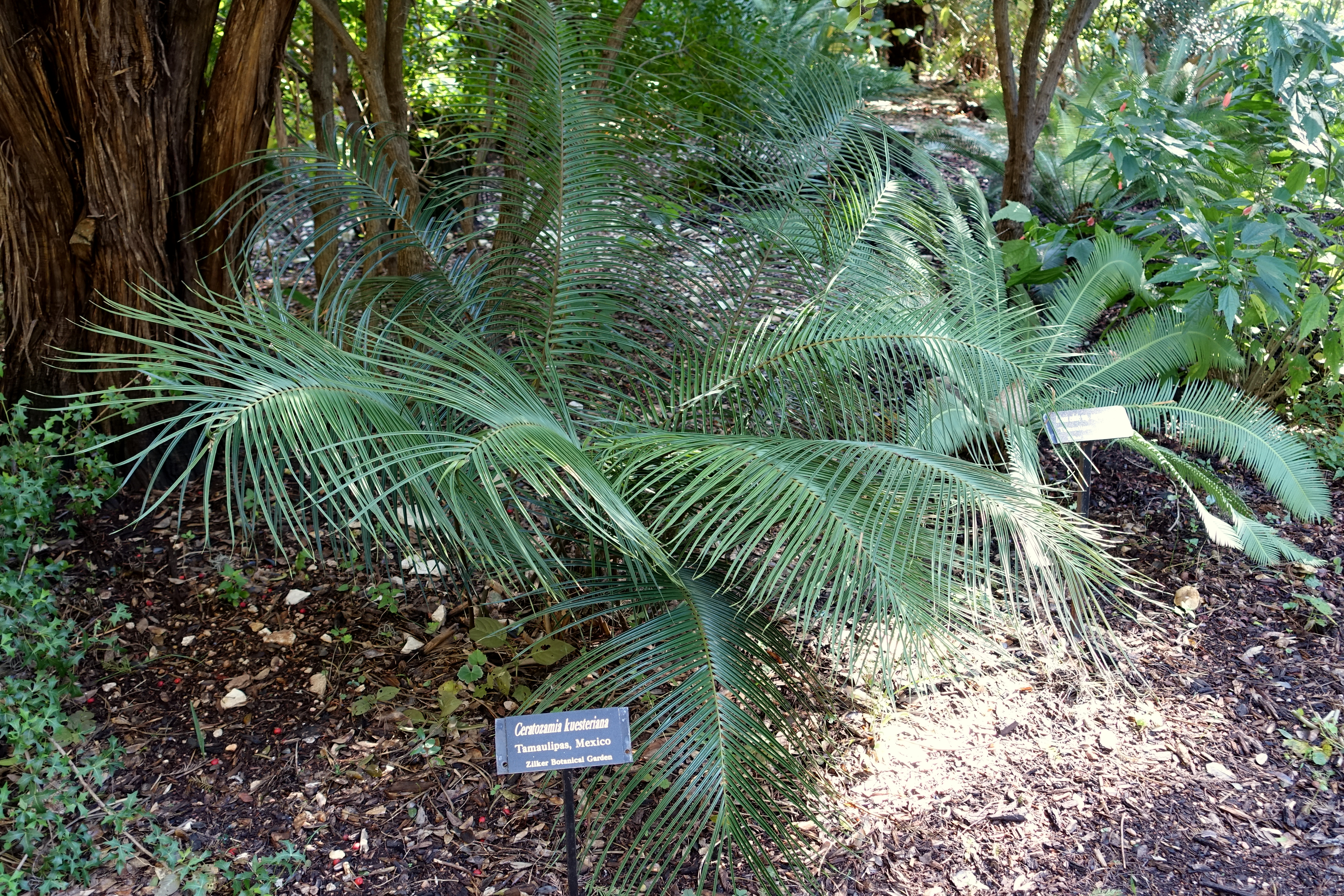 Botanical specimen in the Zilker Botanical Garden - Austin, Texas, USA.